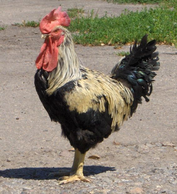 Yurlov Crower male, a golden variety.